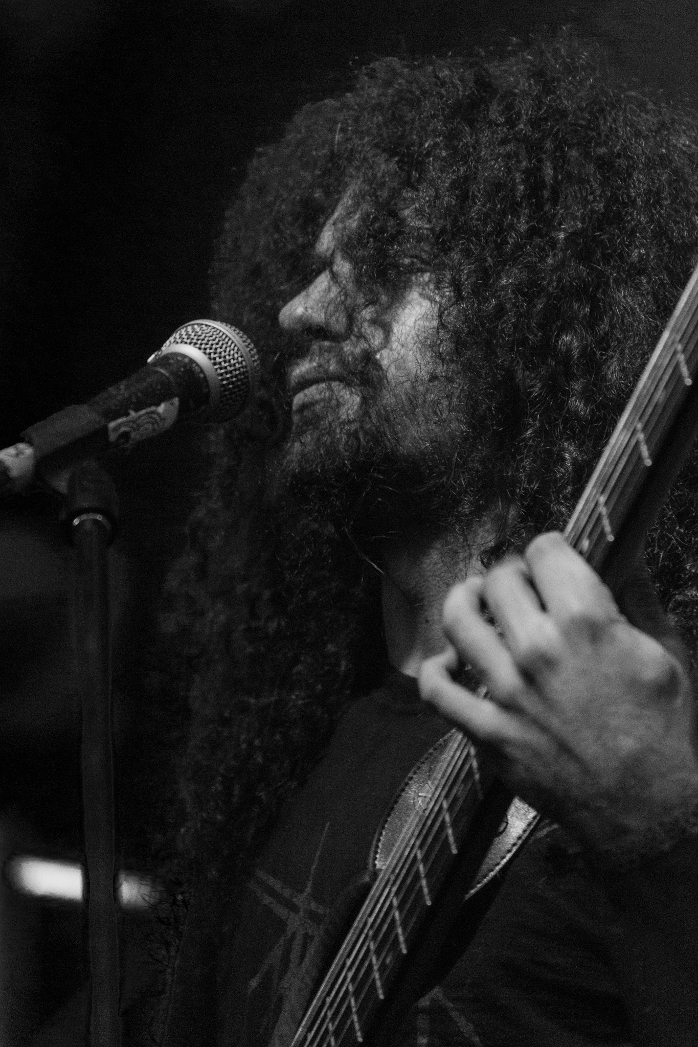 Fuck You and Die performing at the Euroblast Festival in Cologne, October 2014